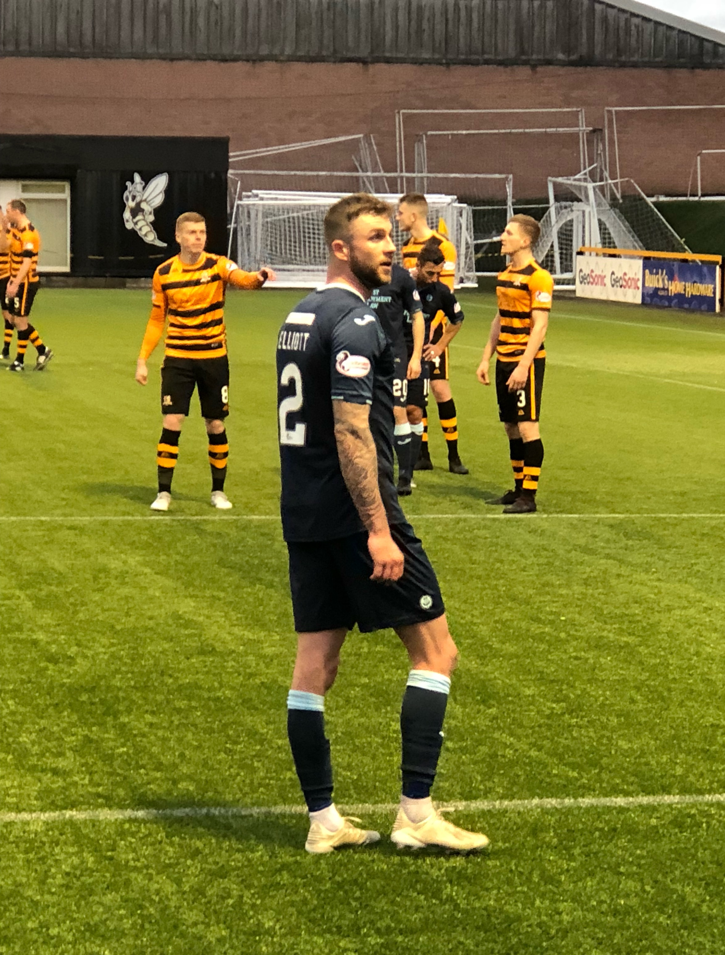 Christie Elliott playing for Partick Thistle against Alloa Athletic at Recreation Park, Alloa in 2019.